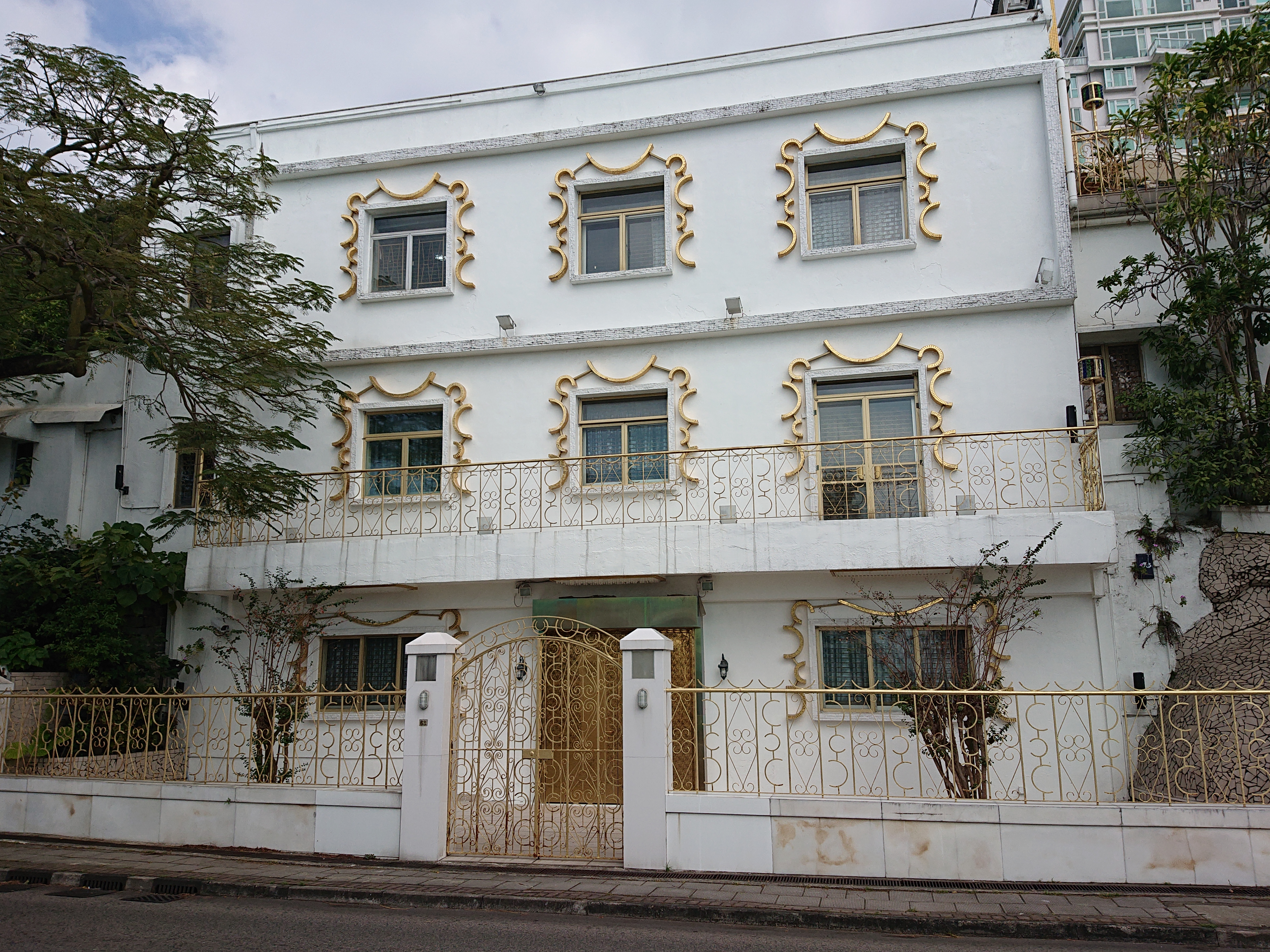 Villa D'ora